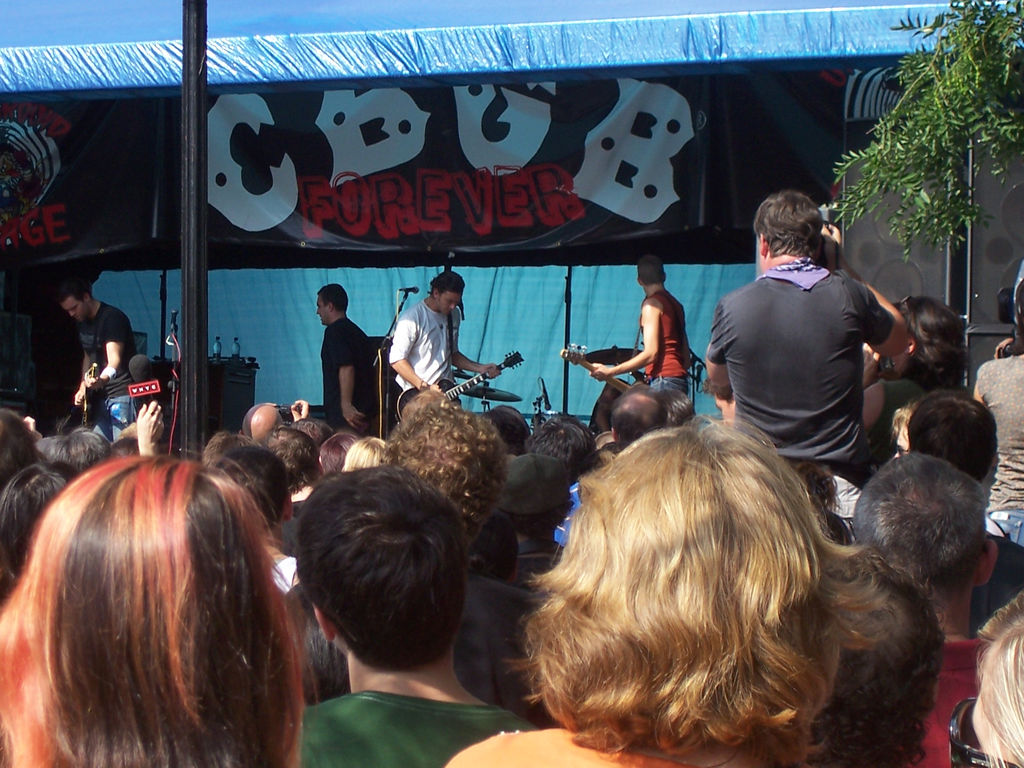 With lead singer Gavin Rossdale from Bush.